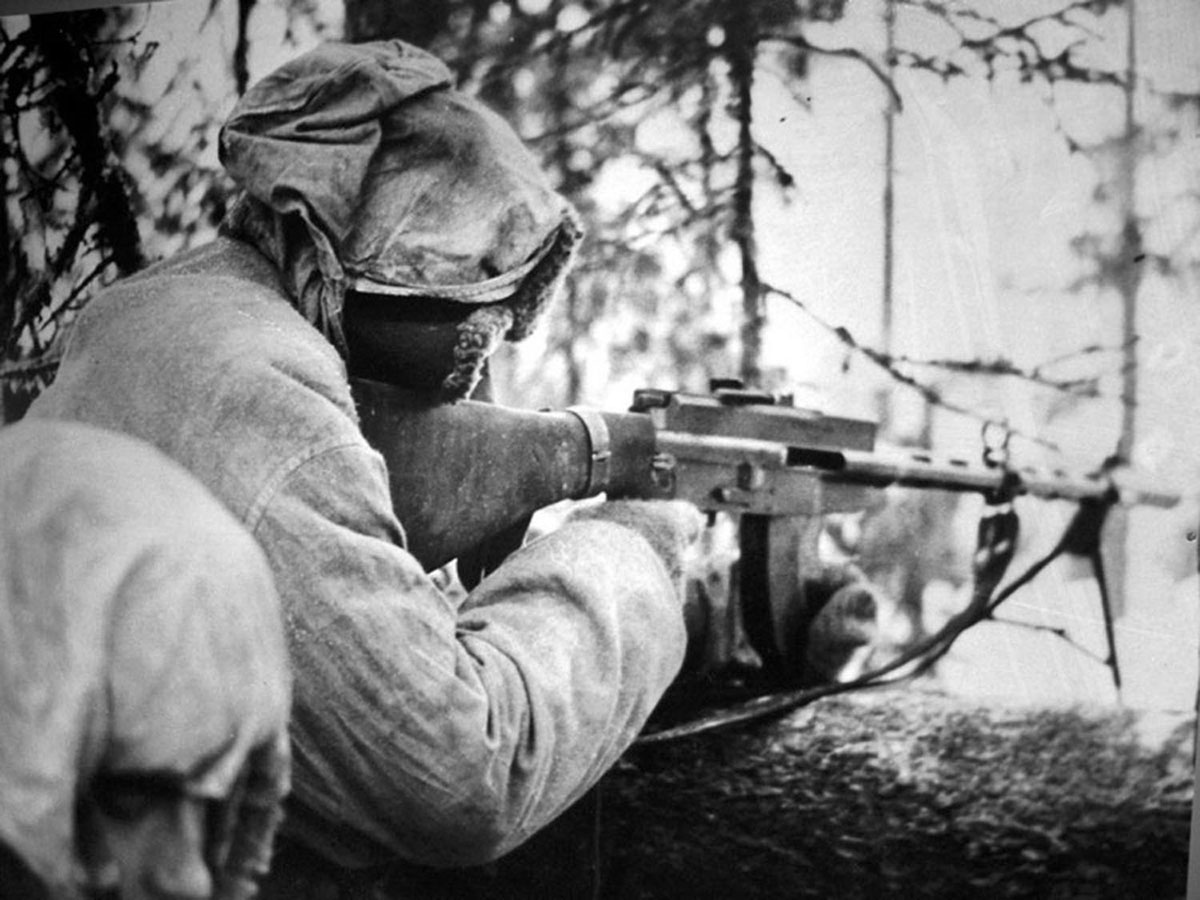 A Finnish soldier with a Lahti-Saloranta M/26 in battle stations during the Winter War in February, 1940.